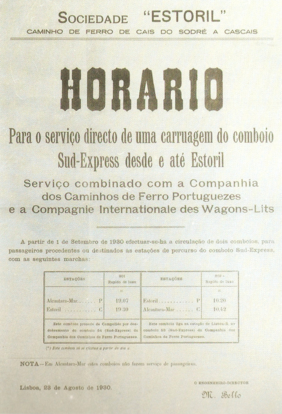 Timetable for a carriage of the Sud Express train, that travelled alone from Rossio or Campolide to Estoril, in the Cascais Railway, in Portugal.